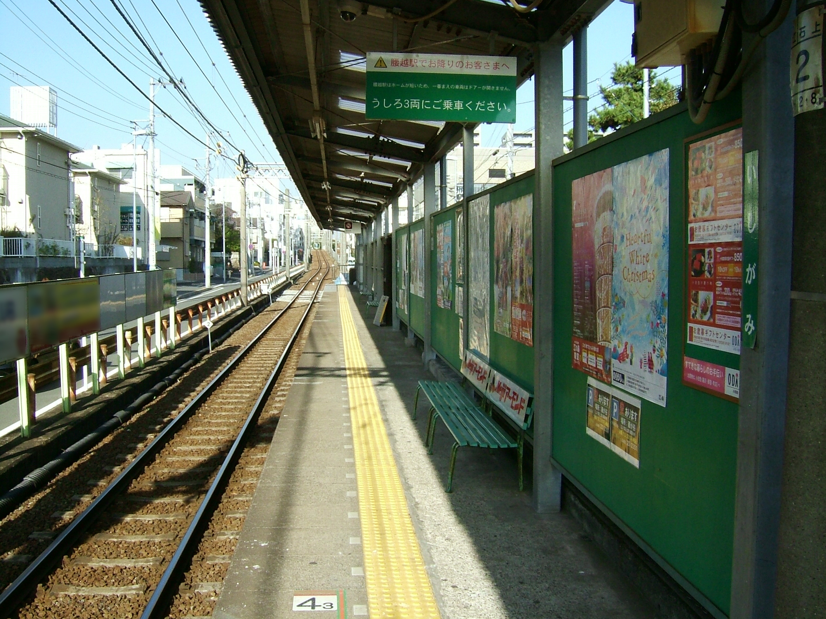 The platform at Ishigami Station on the Enoden Line in Fujisawa city, Kanagawa prefecture, Japan